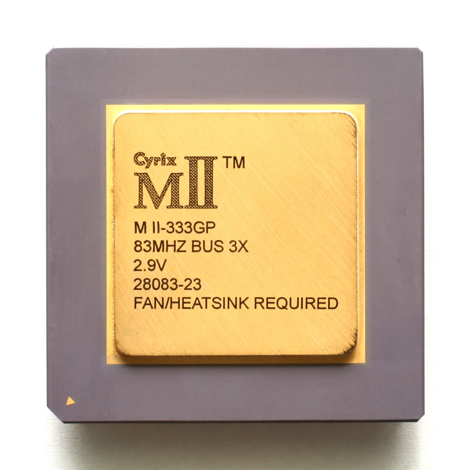 CPU Cyrix MII 333 Mhz